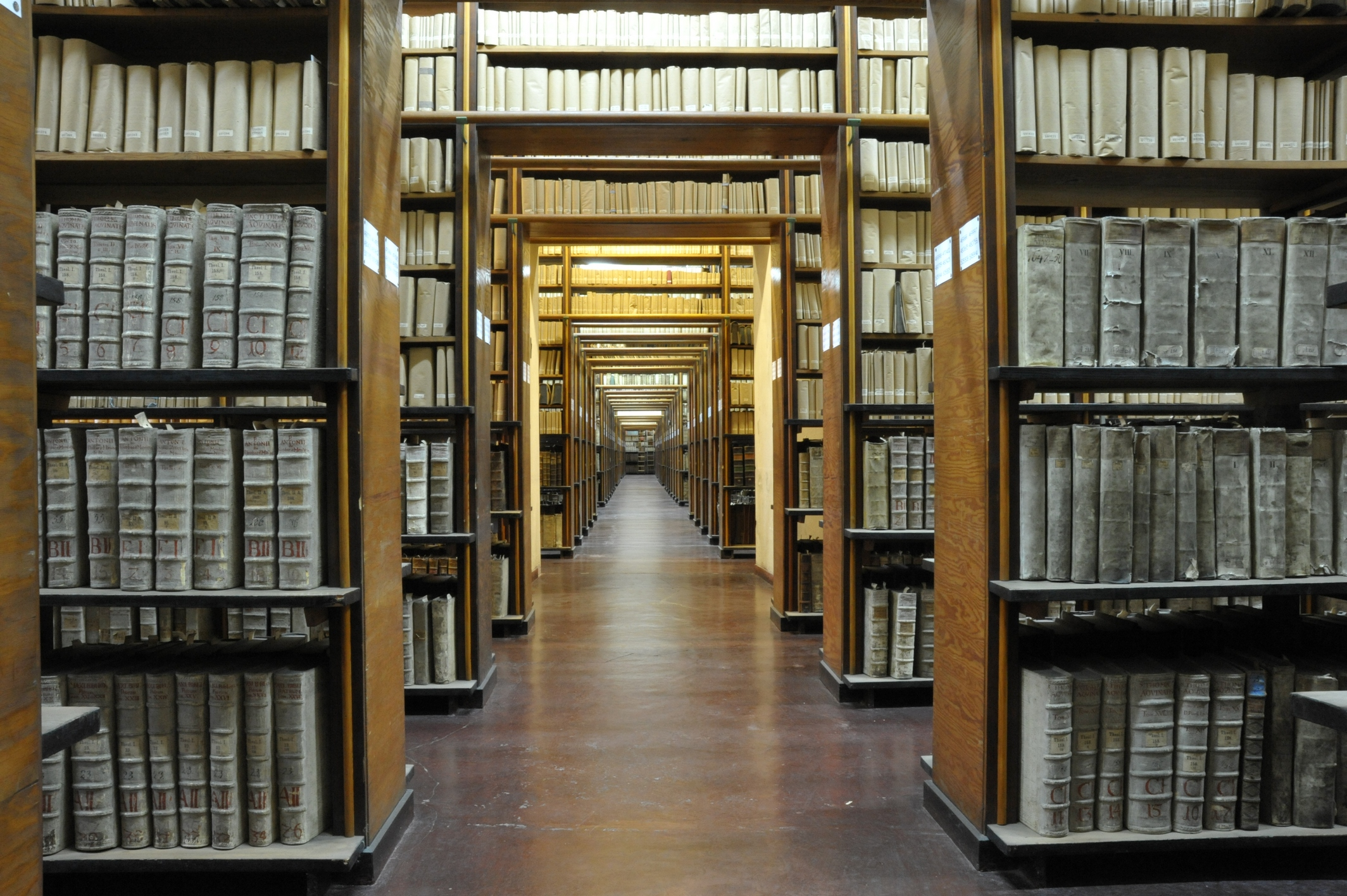 The Wroclaw University Library, founded in 1811, houses unique documents such as medieval manuscripts and old prints, including the works Martin Luther, Cervantes and Shakespeare, as well as rare maps and liturgical texts. The library is using an IBM solution consisting of System x servers and Storage to digitally preserve 800,000 pages of these rare documents and make them available online for the first time. Photo courtesy of Wroclaw University Library, Poland.